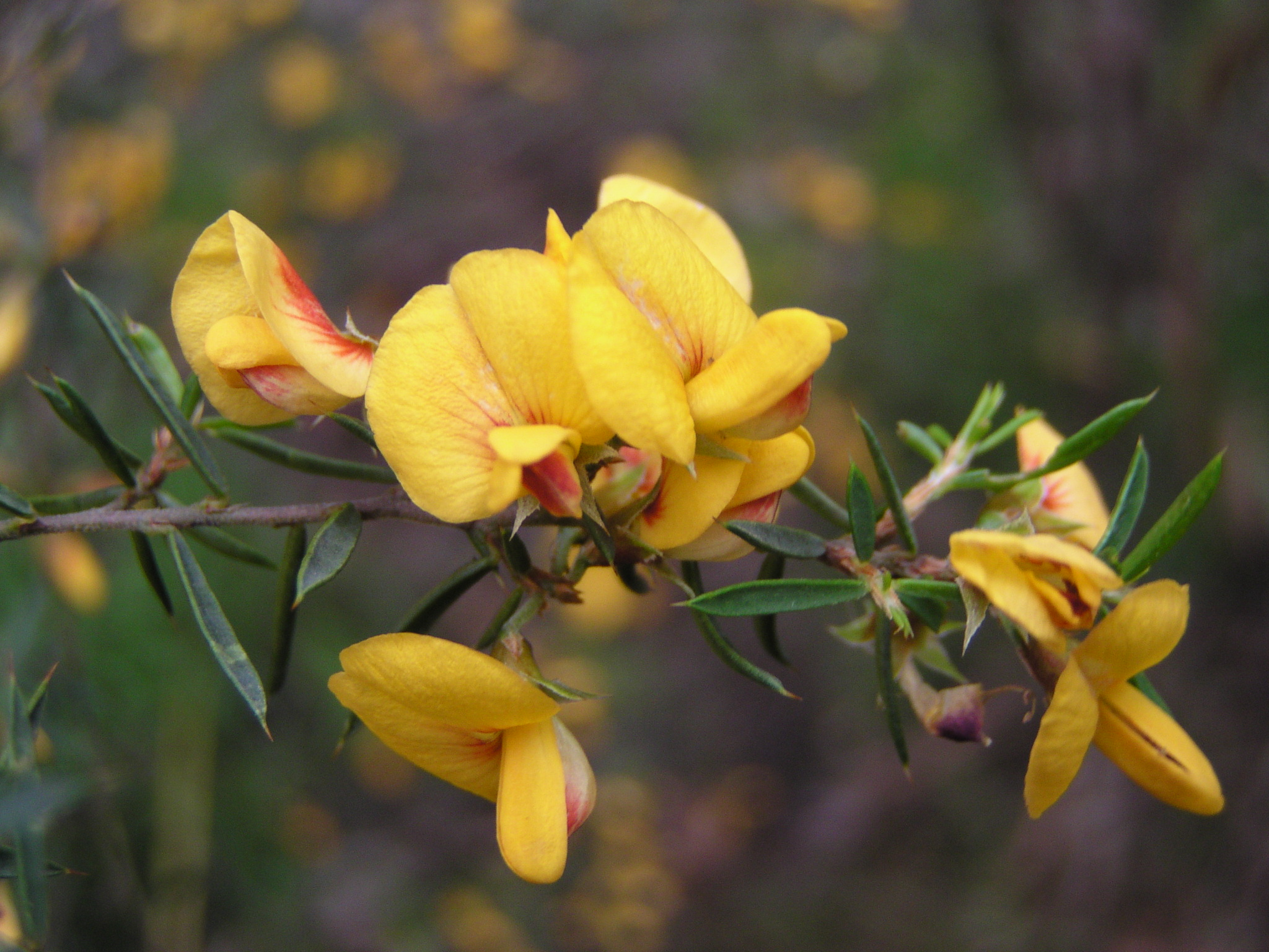 Flowers and leaves of Pultenaea juniperina